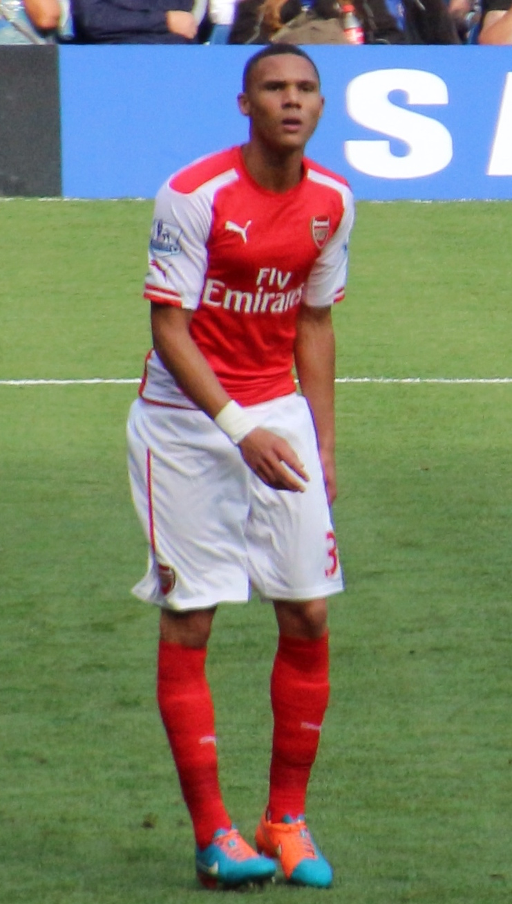 Premier League match between Chelsea and Arsenal at Stamford Bridge on 5 October 2014.